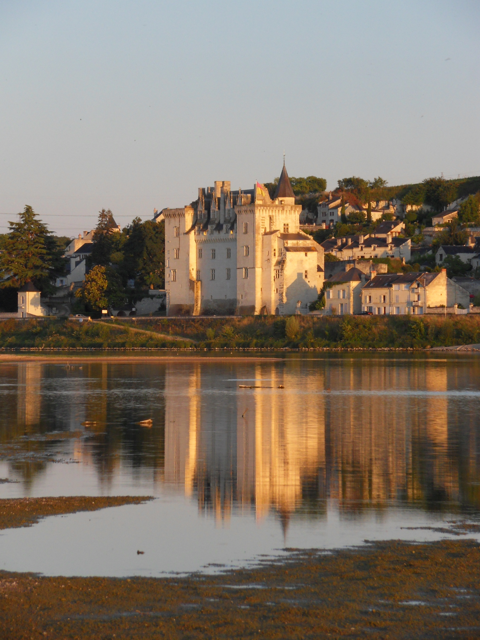 Château de Montsoreau-Museum of Contemporary Art. Montsoreau in the Loire Valley UNESCO World Heritage Site, is listed one of the most beautiful villages of France